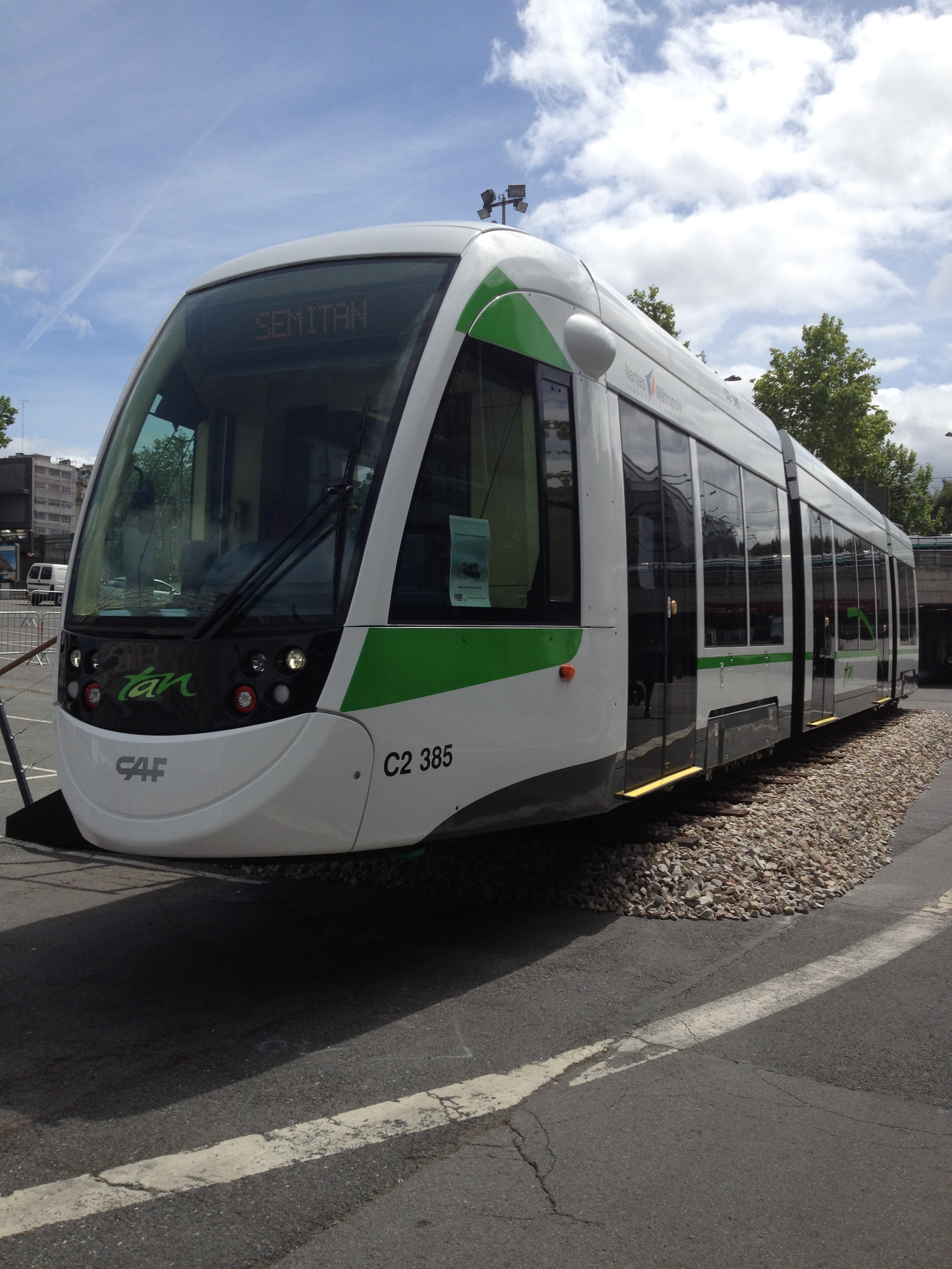 Part of a CAF Urbos 3 stock for Nantes exposed at the public transport fair in Paris in June 2012